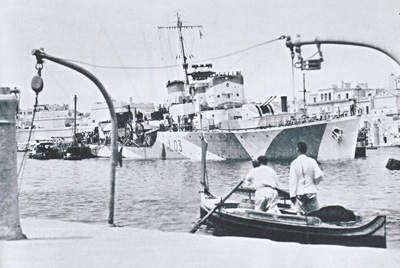 HMS Badsworth after repairs in Malta. Royal Navy picture, Crown Copyright deemed to have expired 50 years from publication. From the Imperial War Museum online collection.